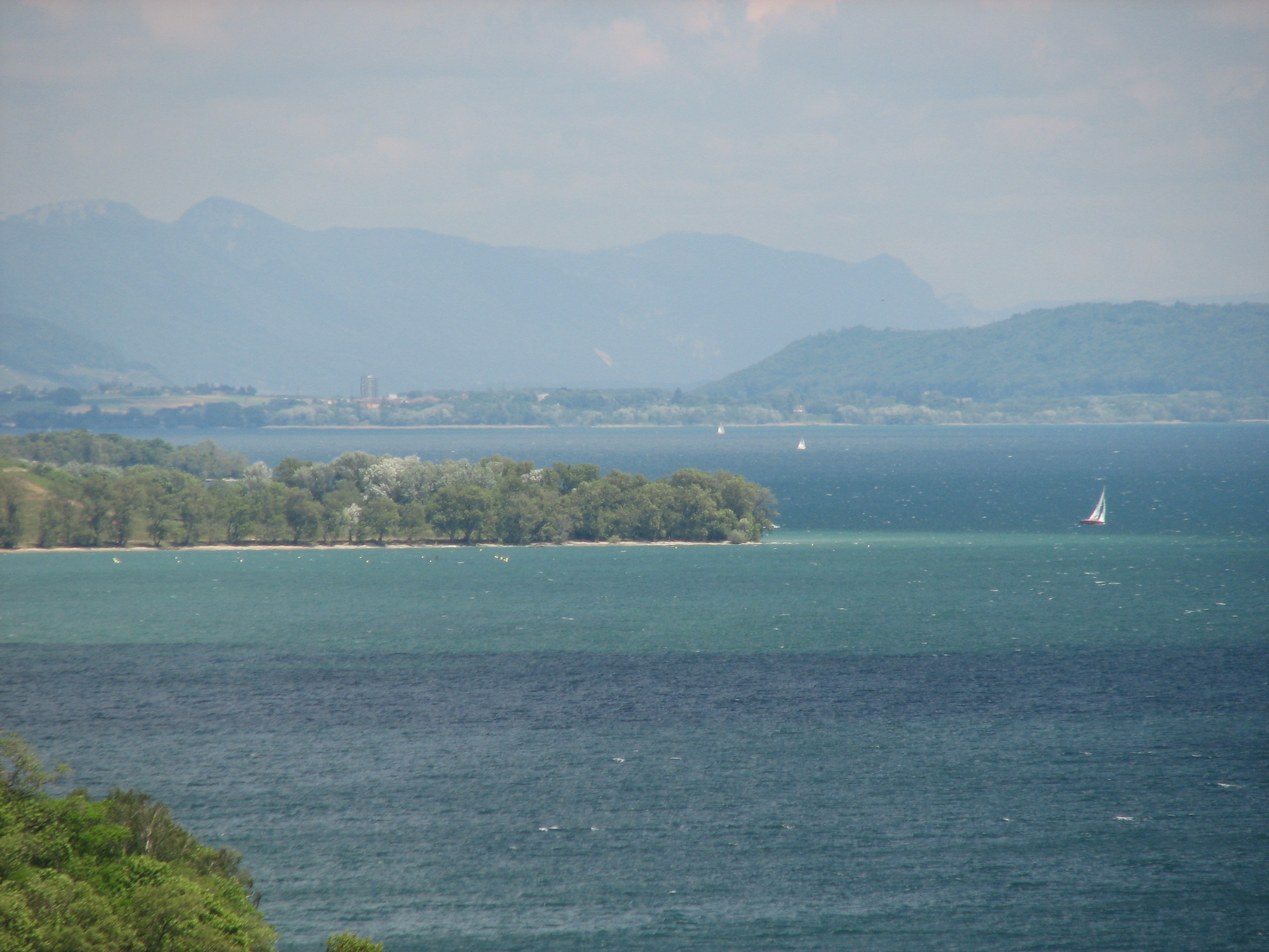 Pointe du grain bay